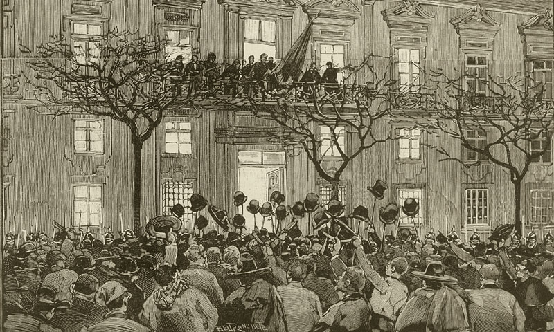 January 31, proclamation of the Republic in Porto - 1891. The proclamation of the Republic of the windows of City Hall